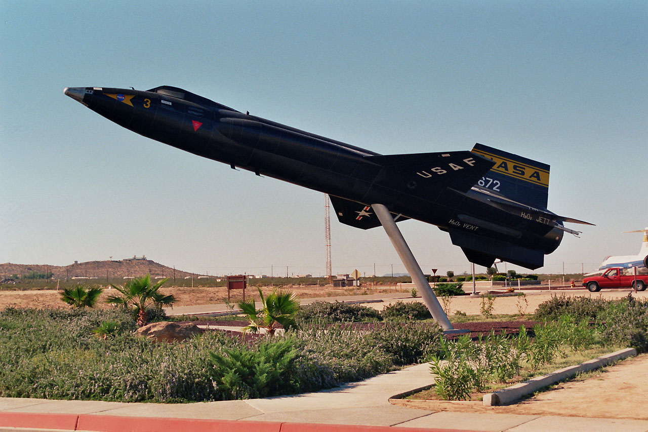 North American X-15 on display at the entrance to Dryden Flight Research Center, Edwards AFB, Mojave Desert, California